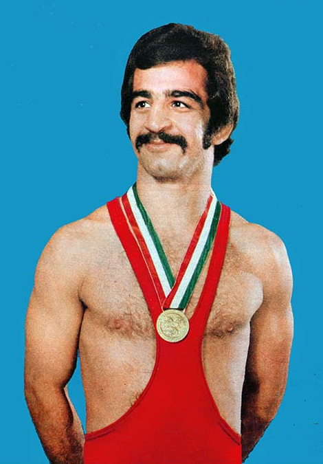 Mohammad Reza Navaei after the 1973 World Championships in Tehran